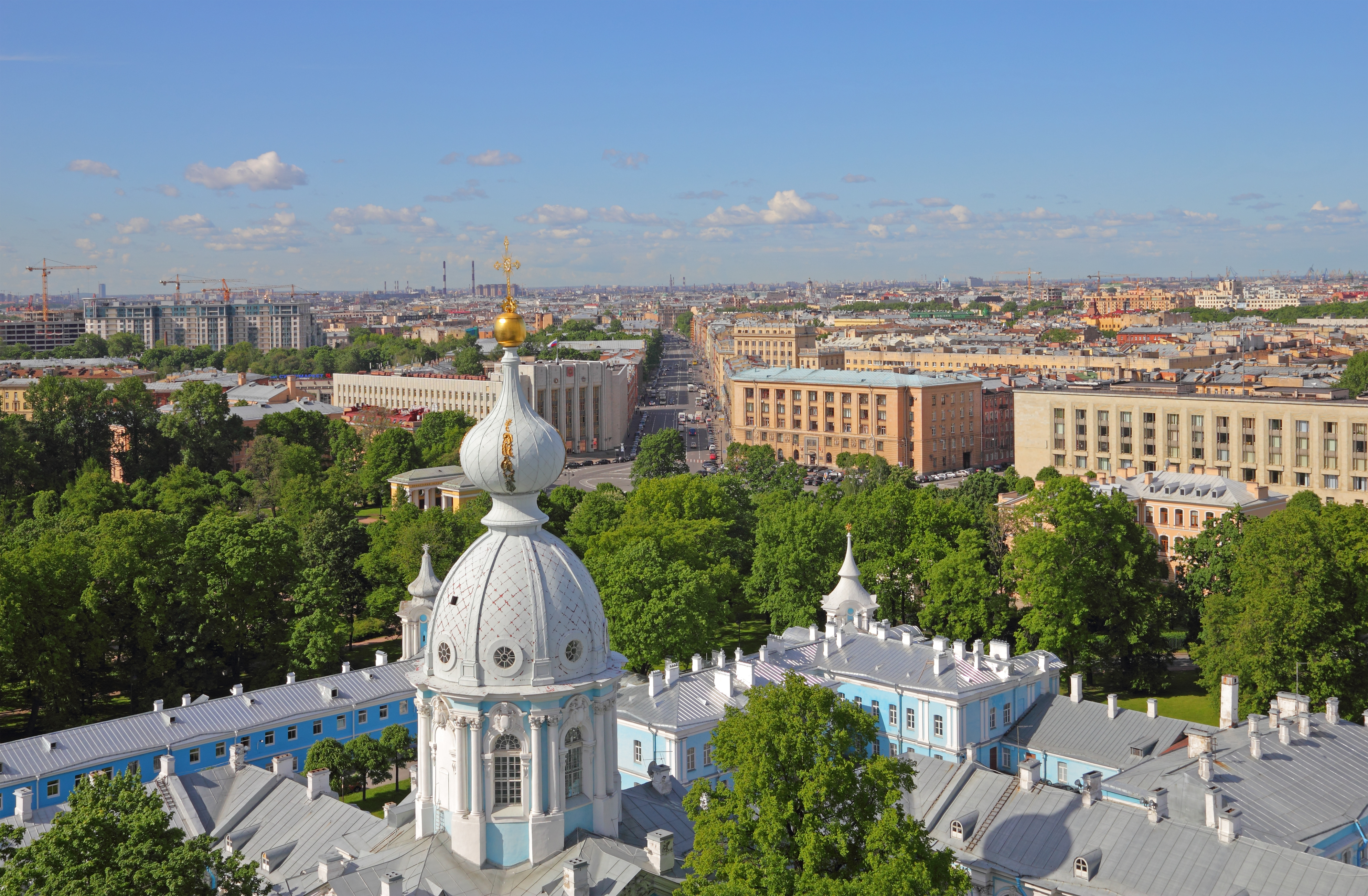 St. Petersburg, Russia. Views from the two bell towers of the Smolny Cathedral.